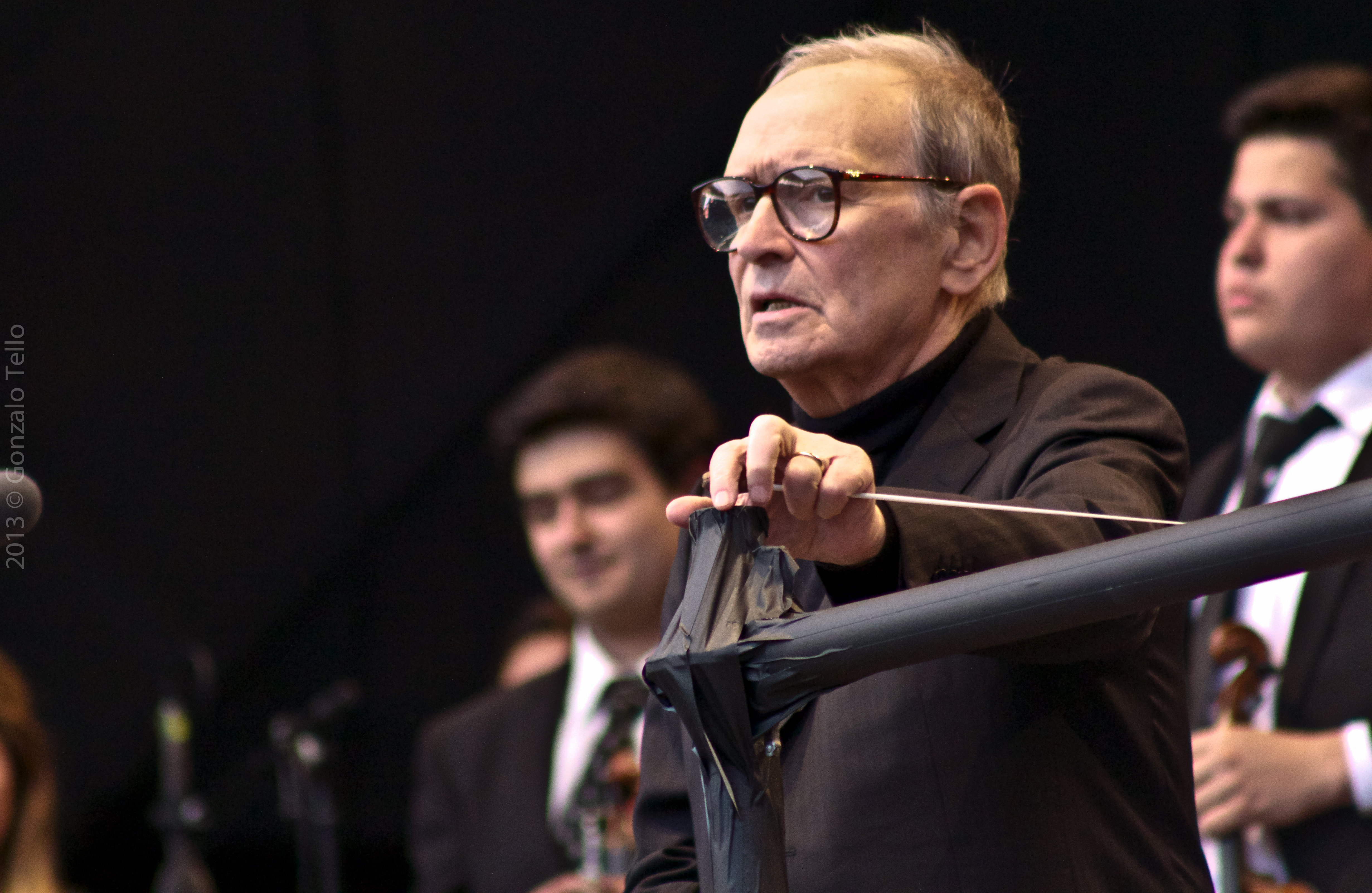 Ennio Morricone at the Estadio Bicentenario de la Florida